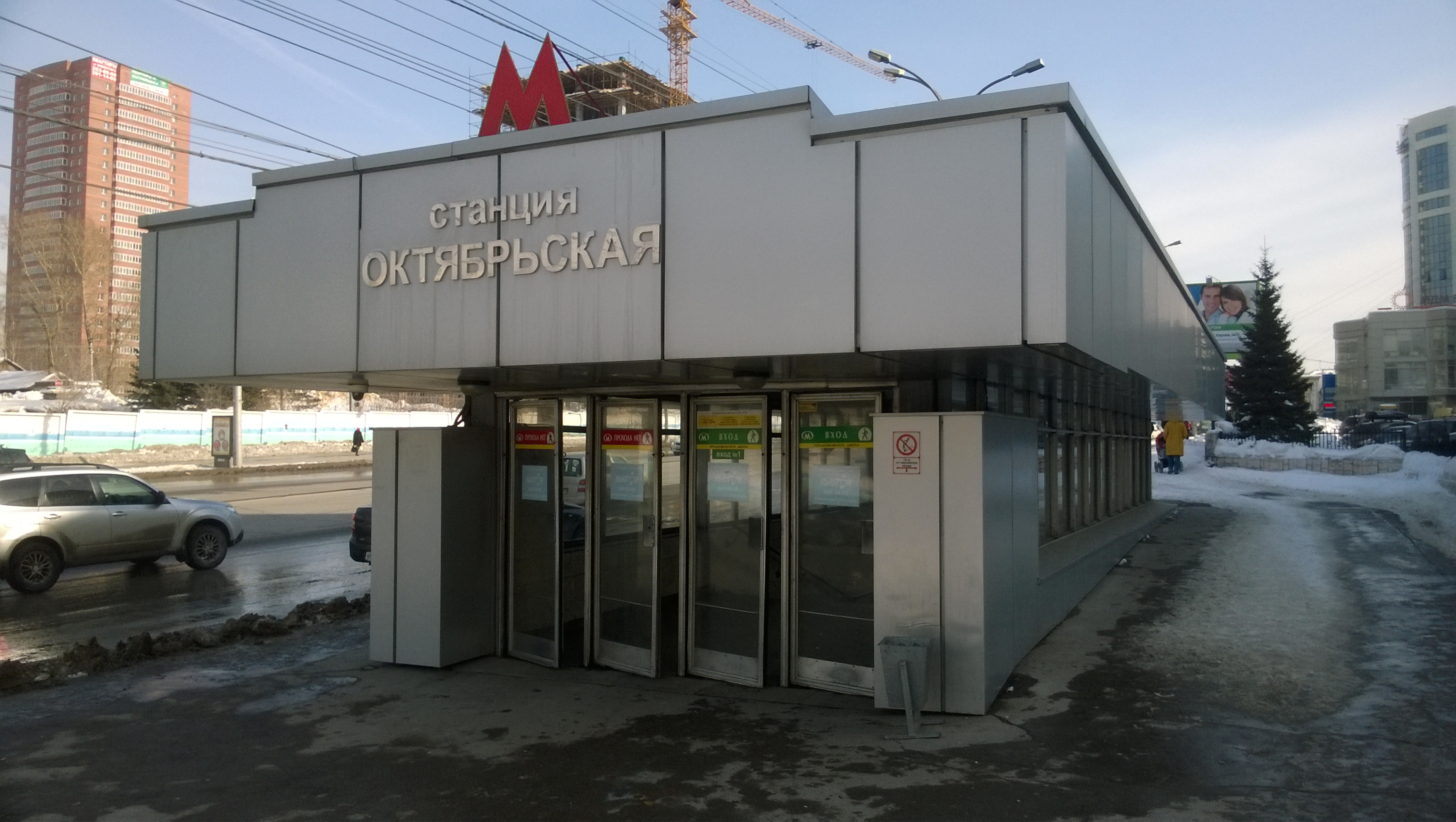 Kirov street in Novosibirsk.